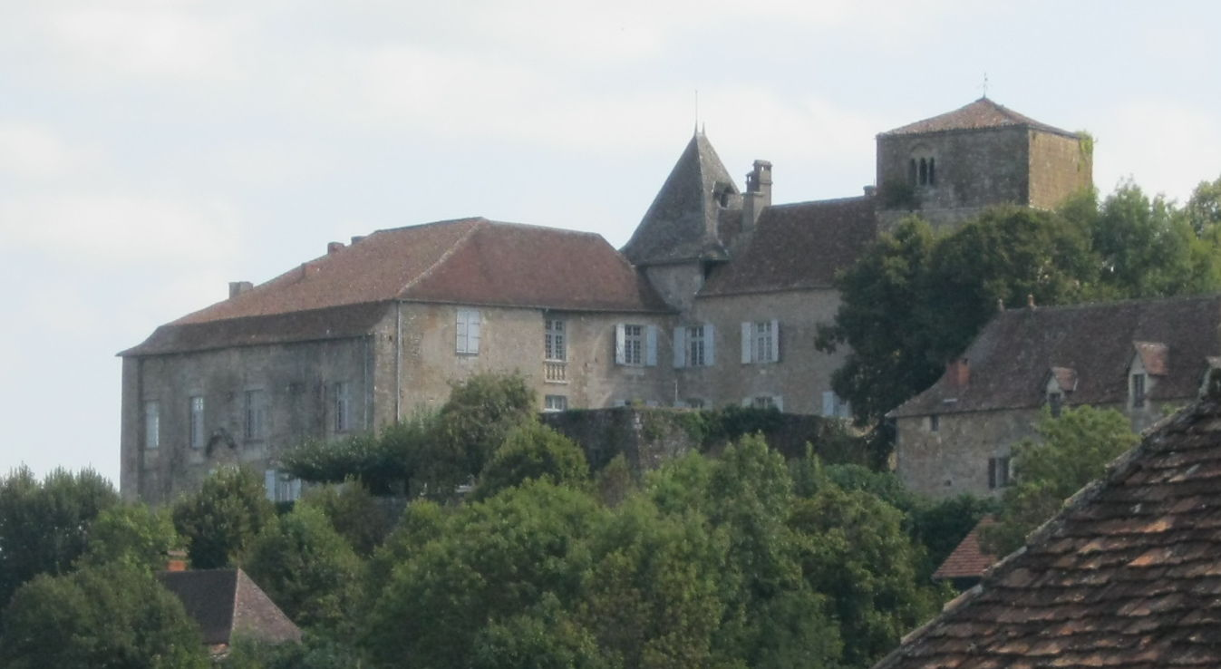 Castle of Béduer (Lot, France). Picture taken near the church of the village.